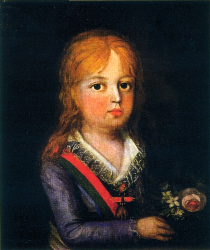 Depicted person: Pedro I of Brazil around age 2.